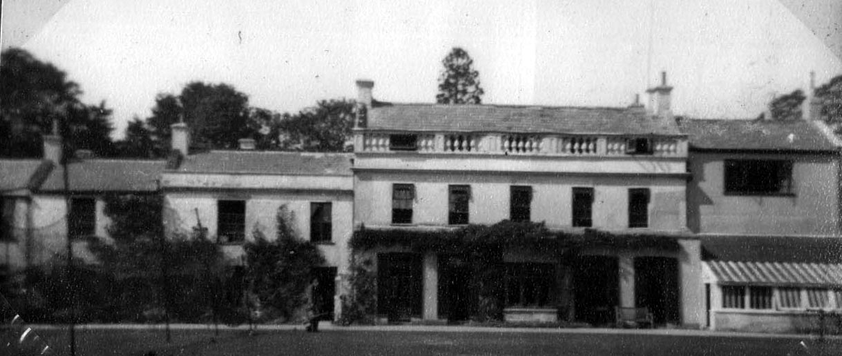 Somerset Court, Brent Knoll, Somerset. View of its south-facing frontage during its occupation by Hill Brow School.